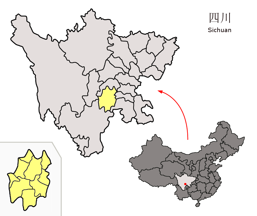 Location of Leshan Prefecture (yellow) within Sichuan province of China Map drawn in september 2007 using various sources, mainly : Sichuan province administrative regions GIS data: 1:1M, County level, 1990 Sichuan Counties map from Map of Yunnan & Sichuan Area from